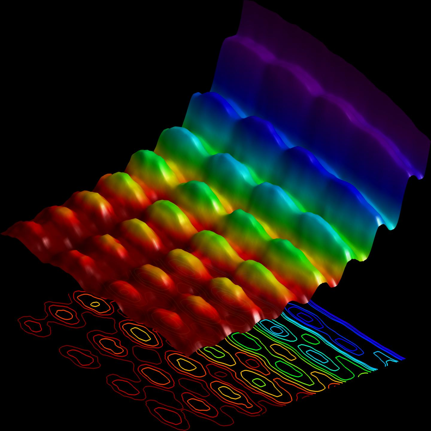 Light photographed as both a particle and wave – Energy-space photography of light confined on a nanowire, simultaneously shows both spatial interference and energy quantization. Source: Fabrizio Carbone/EPFL